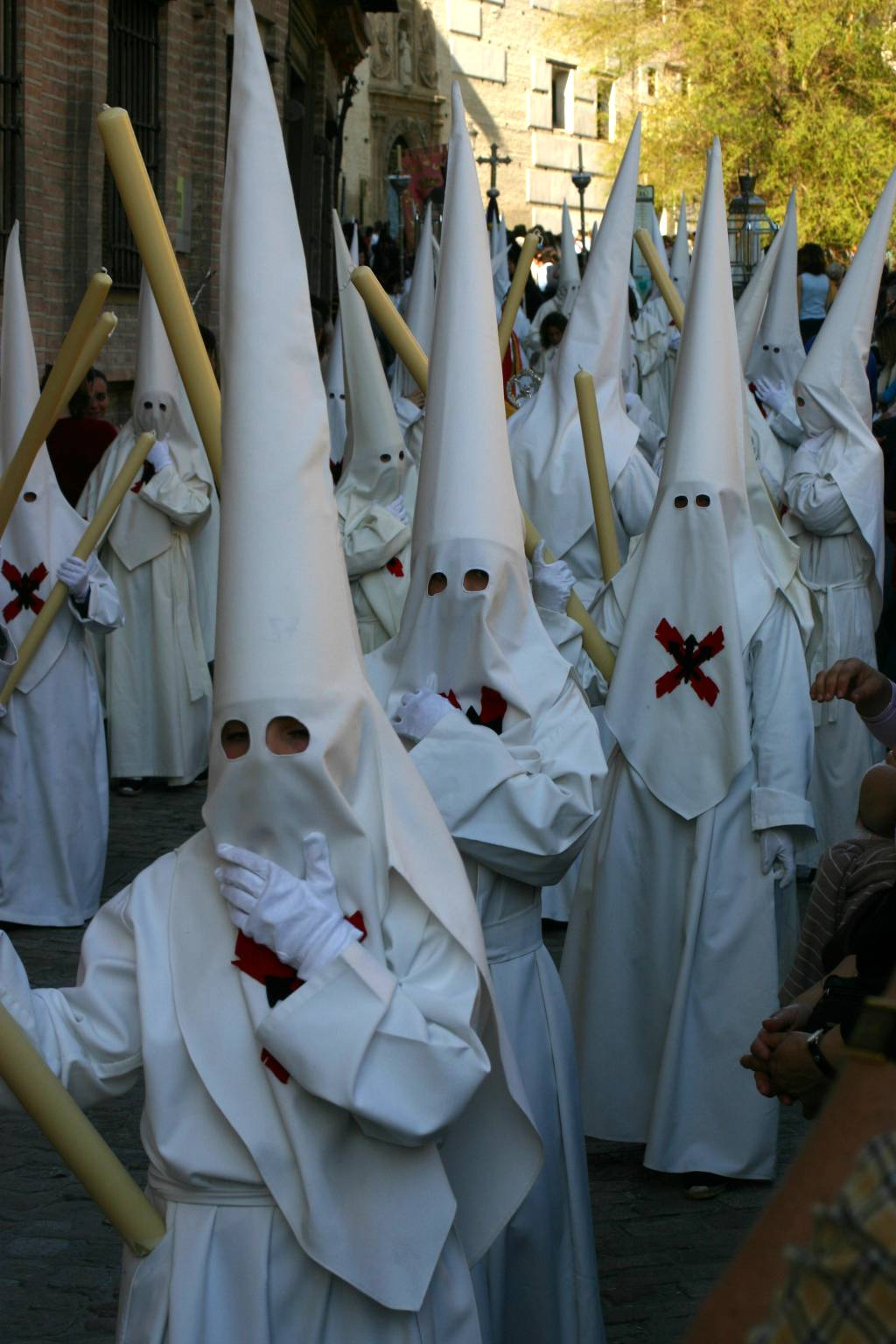 Photographers note These photos are oldies but goodies from a trip we took to Spain in April 2004. Granada is a gorgeous city - full of history, culture, and excellent wine and Sangria - definitely a good place to go back to!